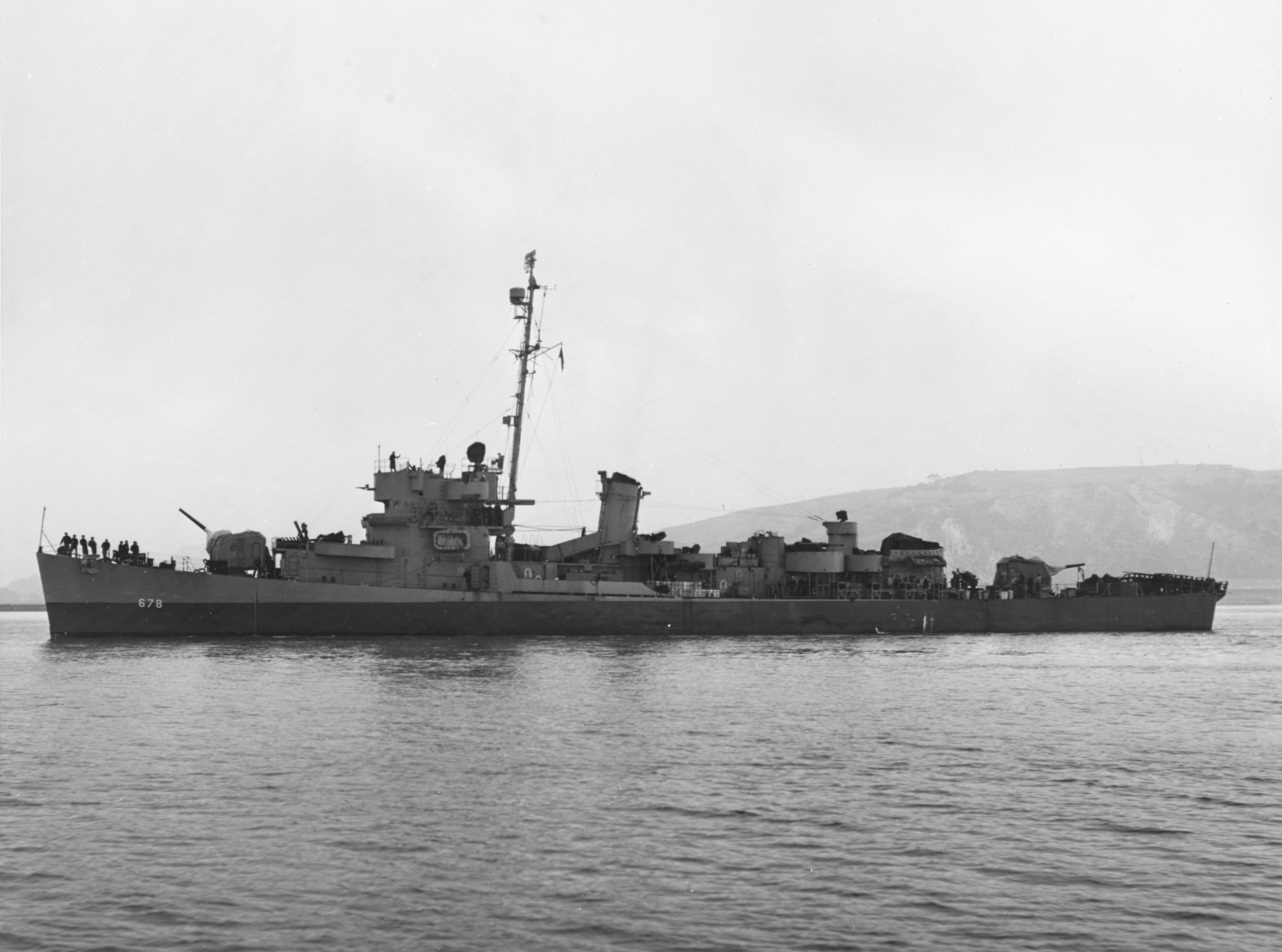 The U.S. Navy destroyer escort USS Harmon (DE-678) off the Mare Island Naval Shipyard, California (USA), on 13 November 1945, following overhaul and refitting with 127 mm/38 guns.